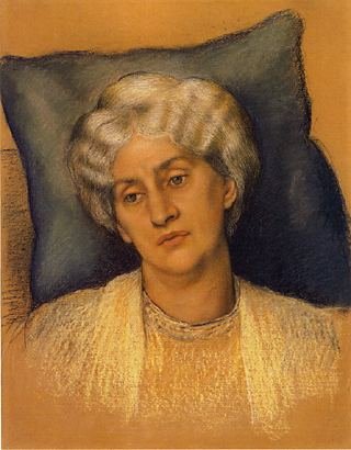 Picture of Jane Burden Morris, wife of William Morris, by Evelyn de Morgan (1904)